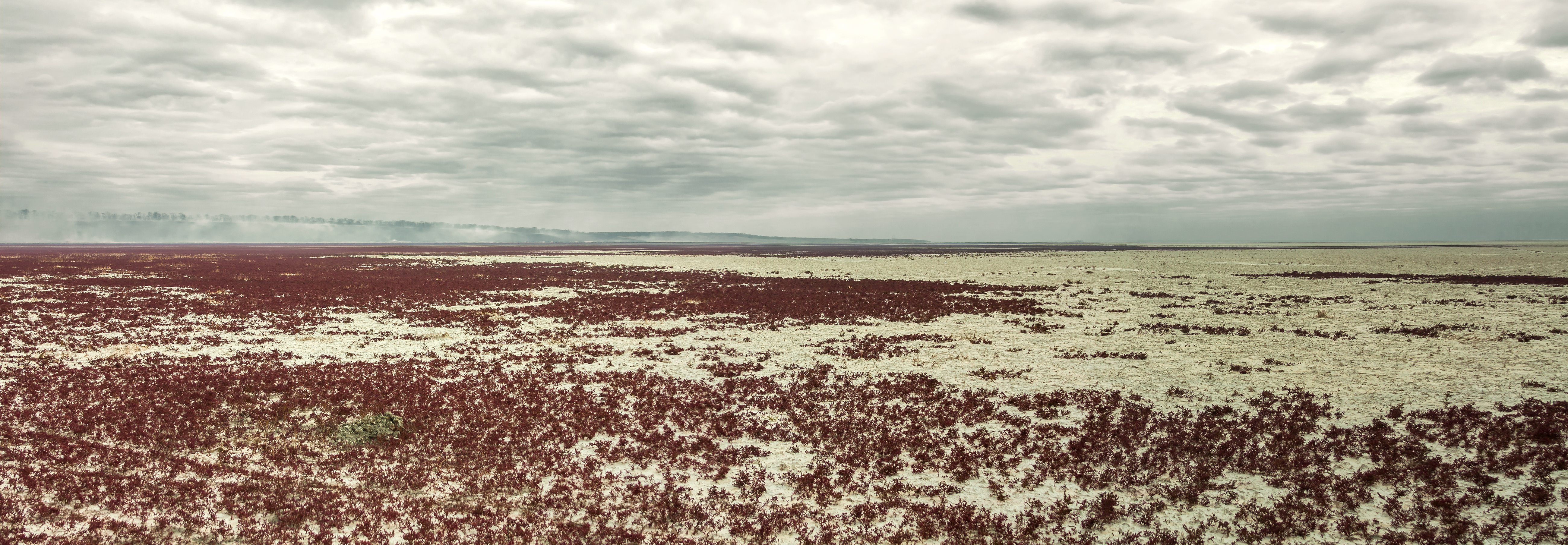 Dried Lake Khanskoye. Yeisk District, Krasnodar Krai, Russia This image is related to the protected area of Russia number 2310138